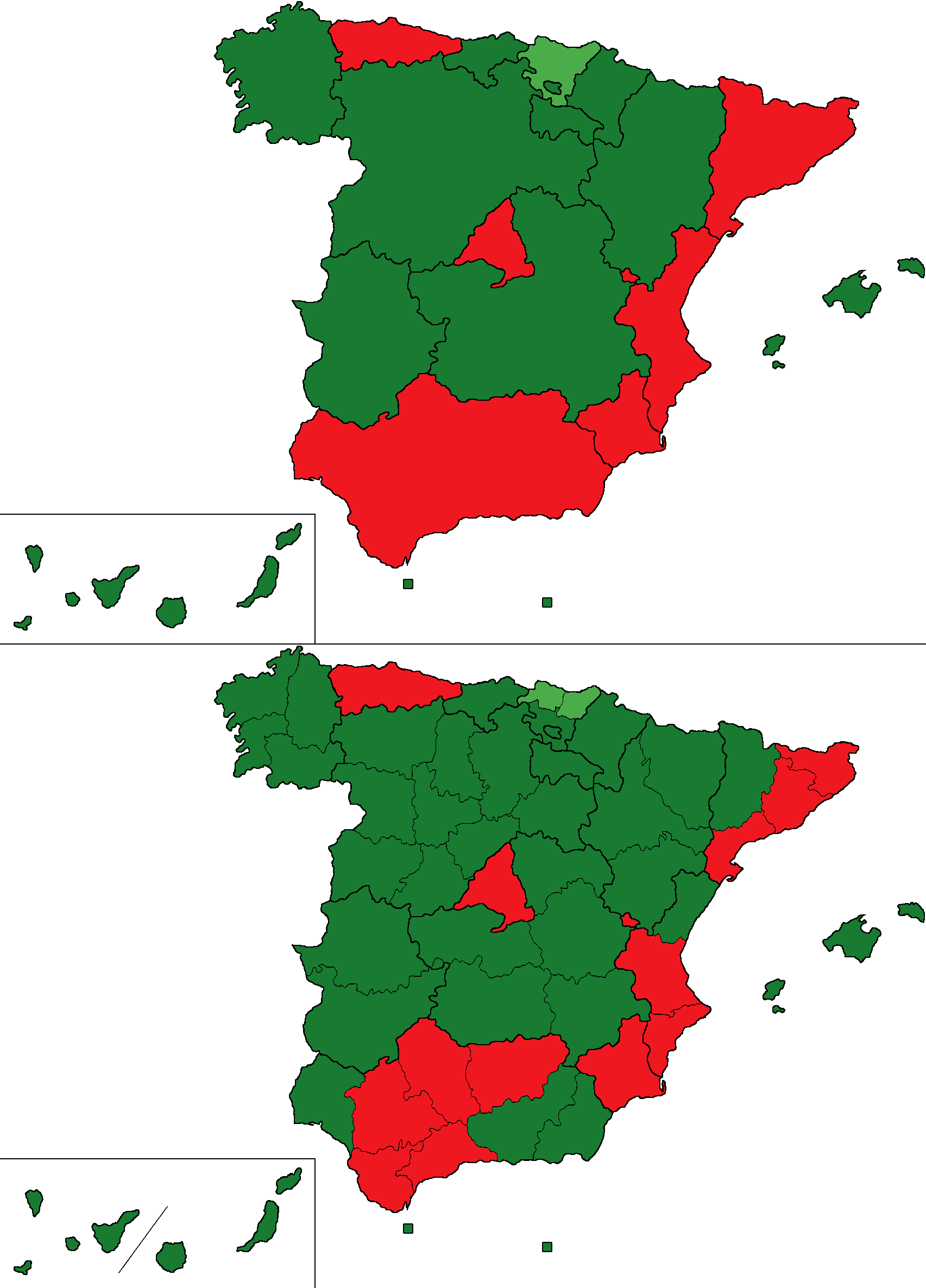 Most voted party in the 1979 Spanish Congress of Deputies election by autonomous communities and provinces.